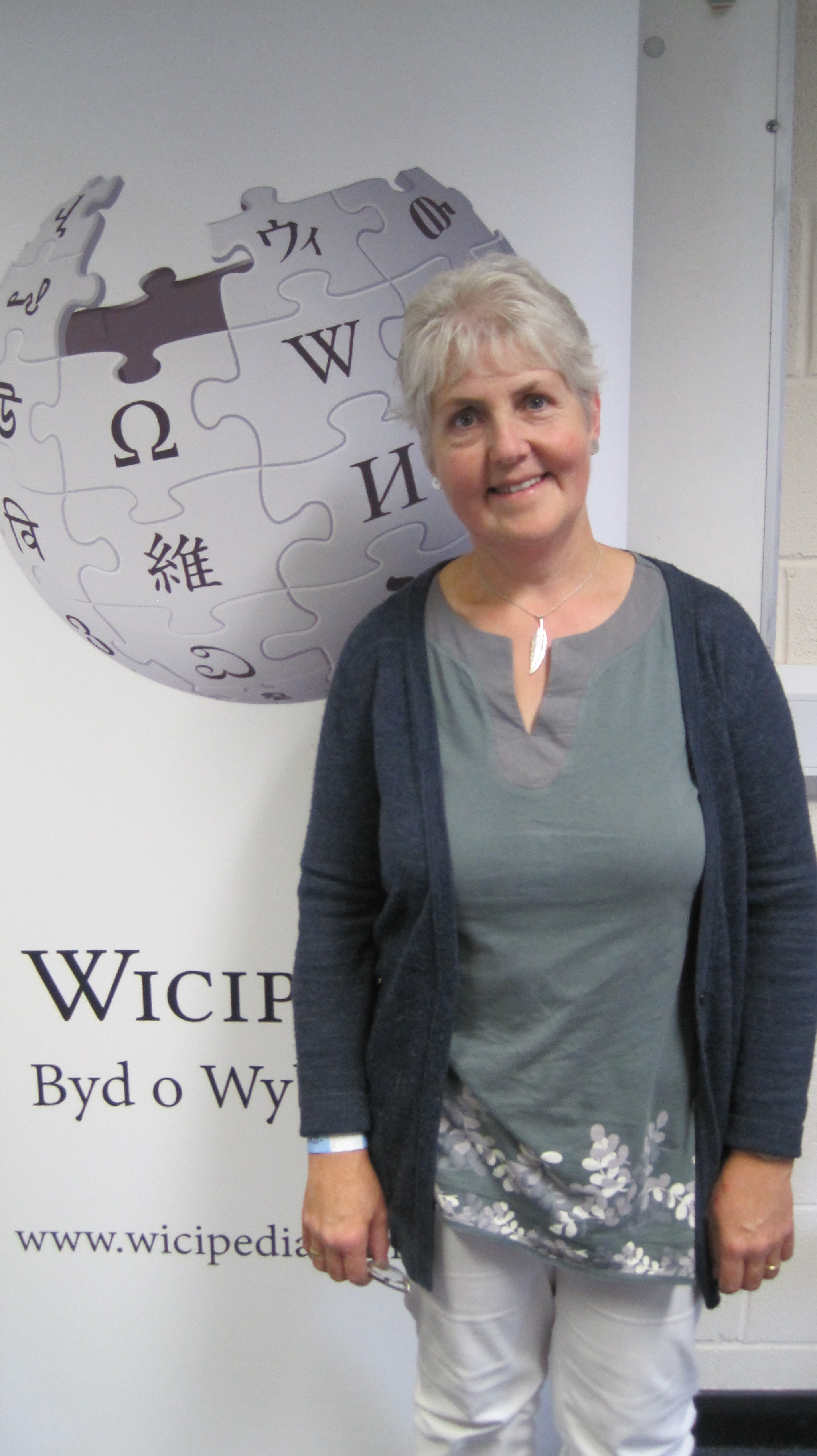 Angharad Tomos, author of books in Welsh, Cymdeithas yr Iaith campaigner